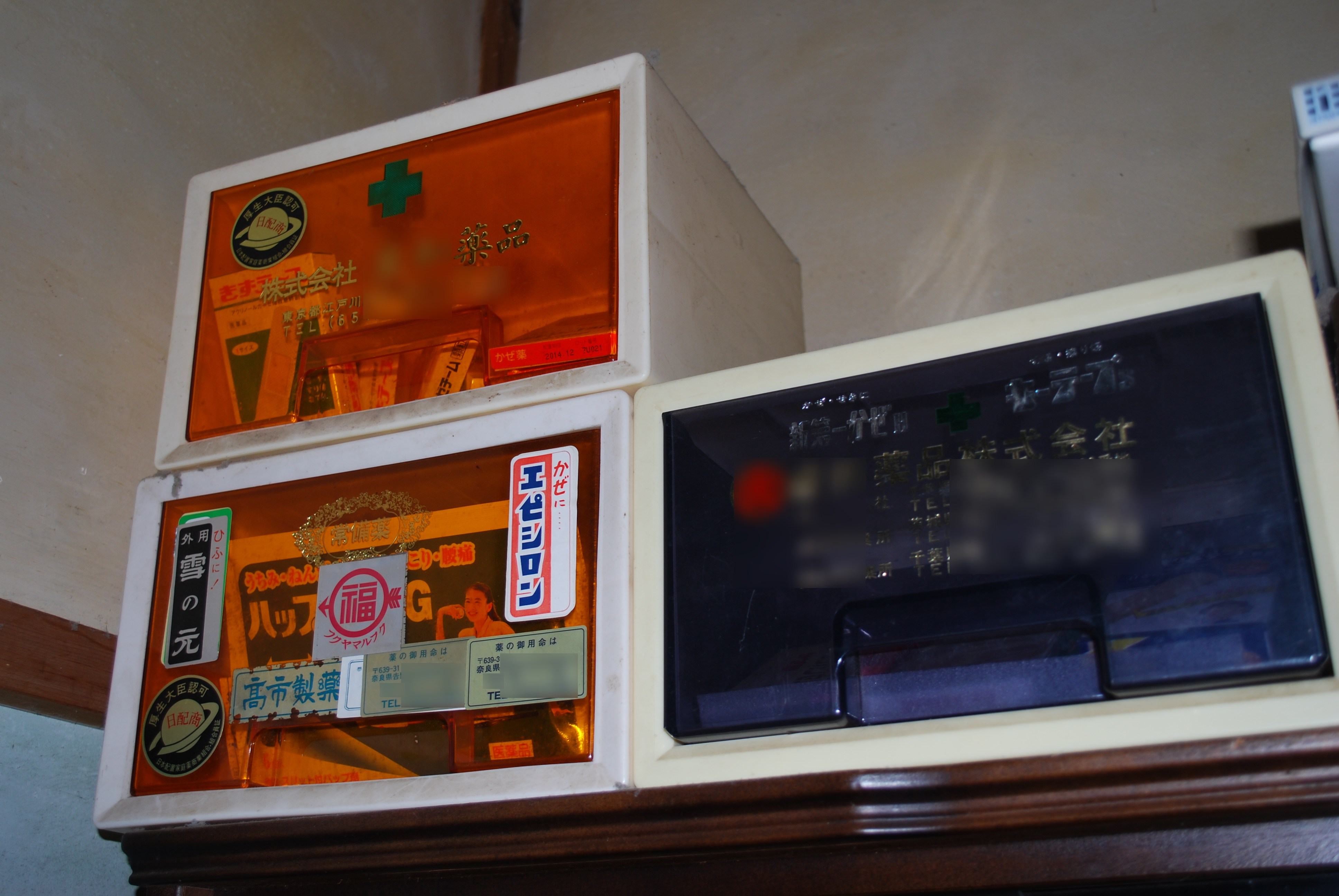 Medicine which is put in the home,Okigusuri,Katori-city,Japan